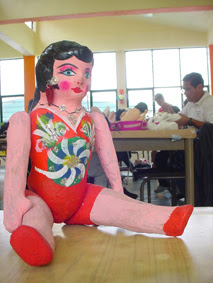 Cartonería doll from Celaya, Guanajuato, México